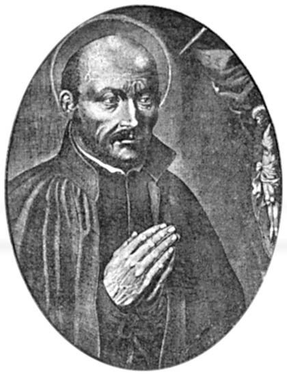 Ignatius of Loyola (1491-1556)